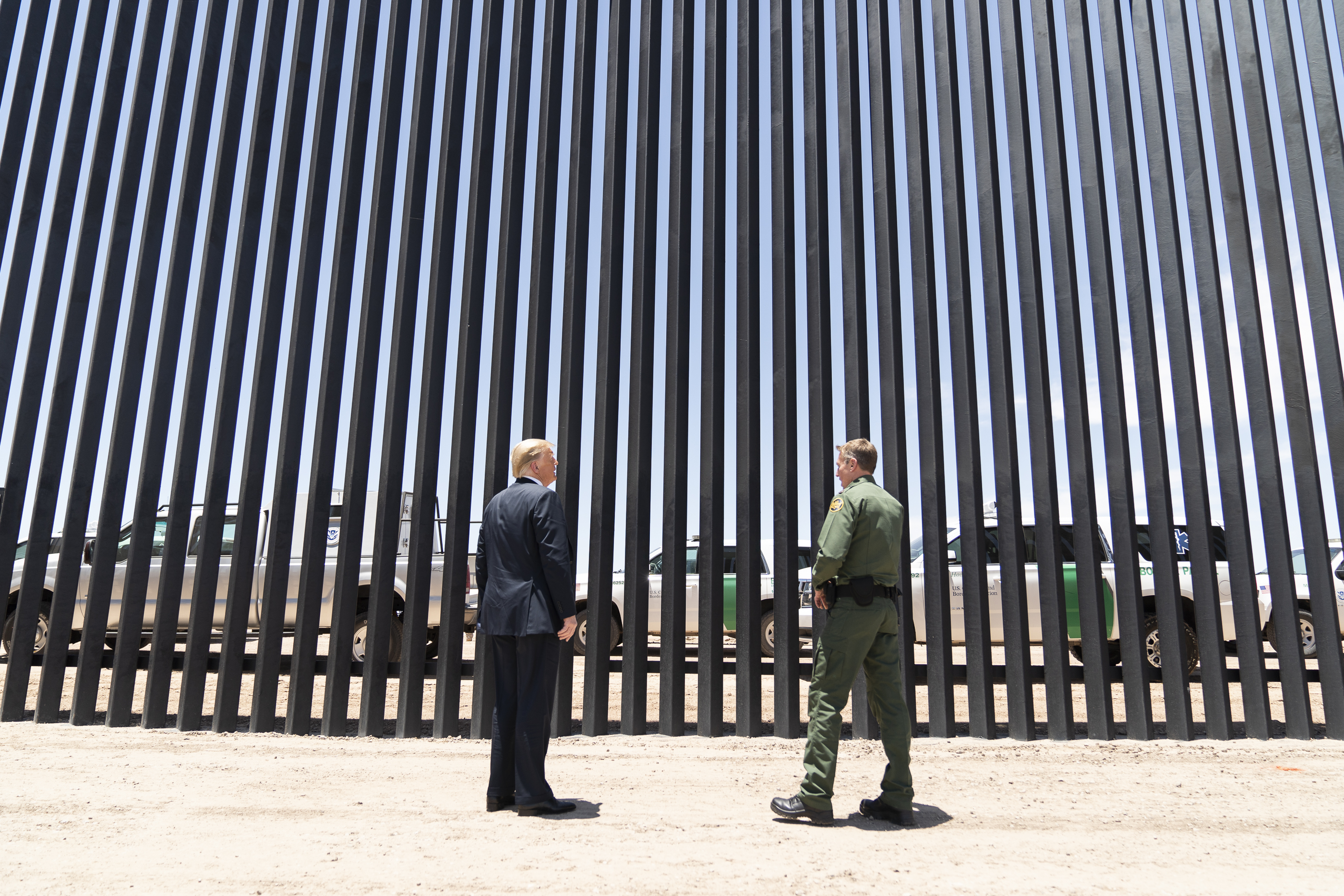 President Donald J. Trump walks along the completed 200th mile of new border wall Tuesday, June 23, 2020, along the U.S.-Mexico border near Yuma, Ariz. (Official White House Photo by Shealah Craighead)